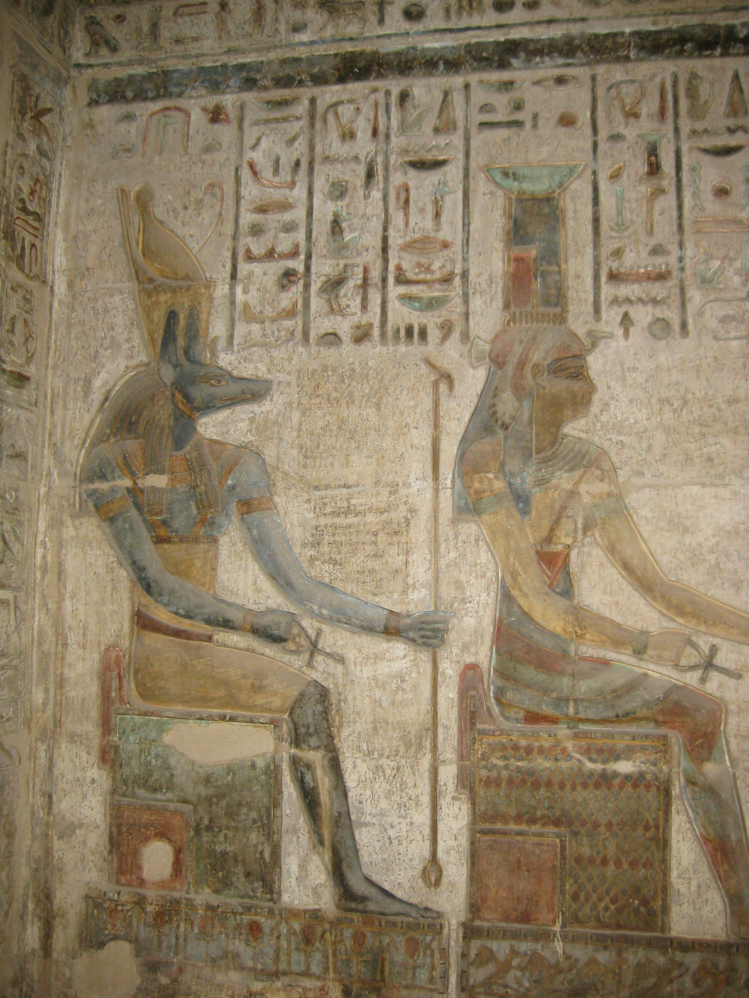 Deir el Medina (The Place of Truth)